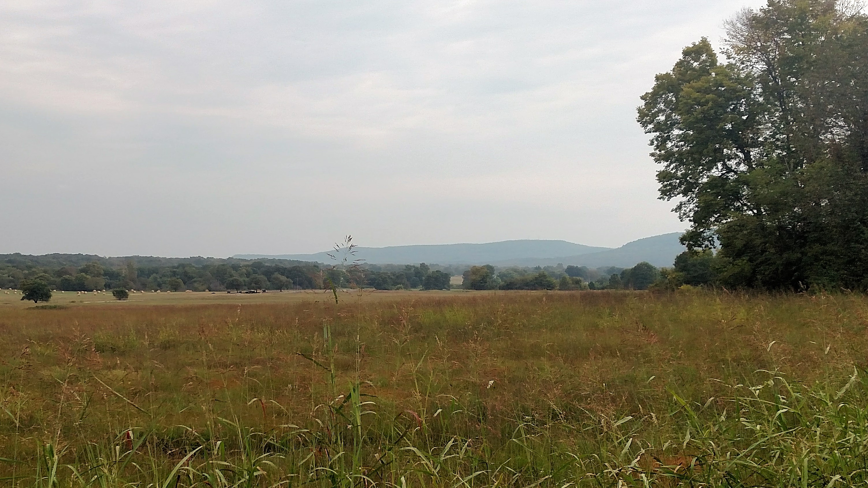 Typical western Washington County, Ark landscape, flat with steeper Boston Mountains in the horizon. Taken from Prairie Grove Battlefield State Park facing east